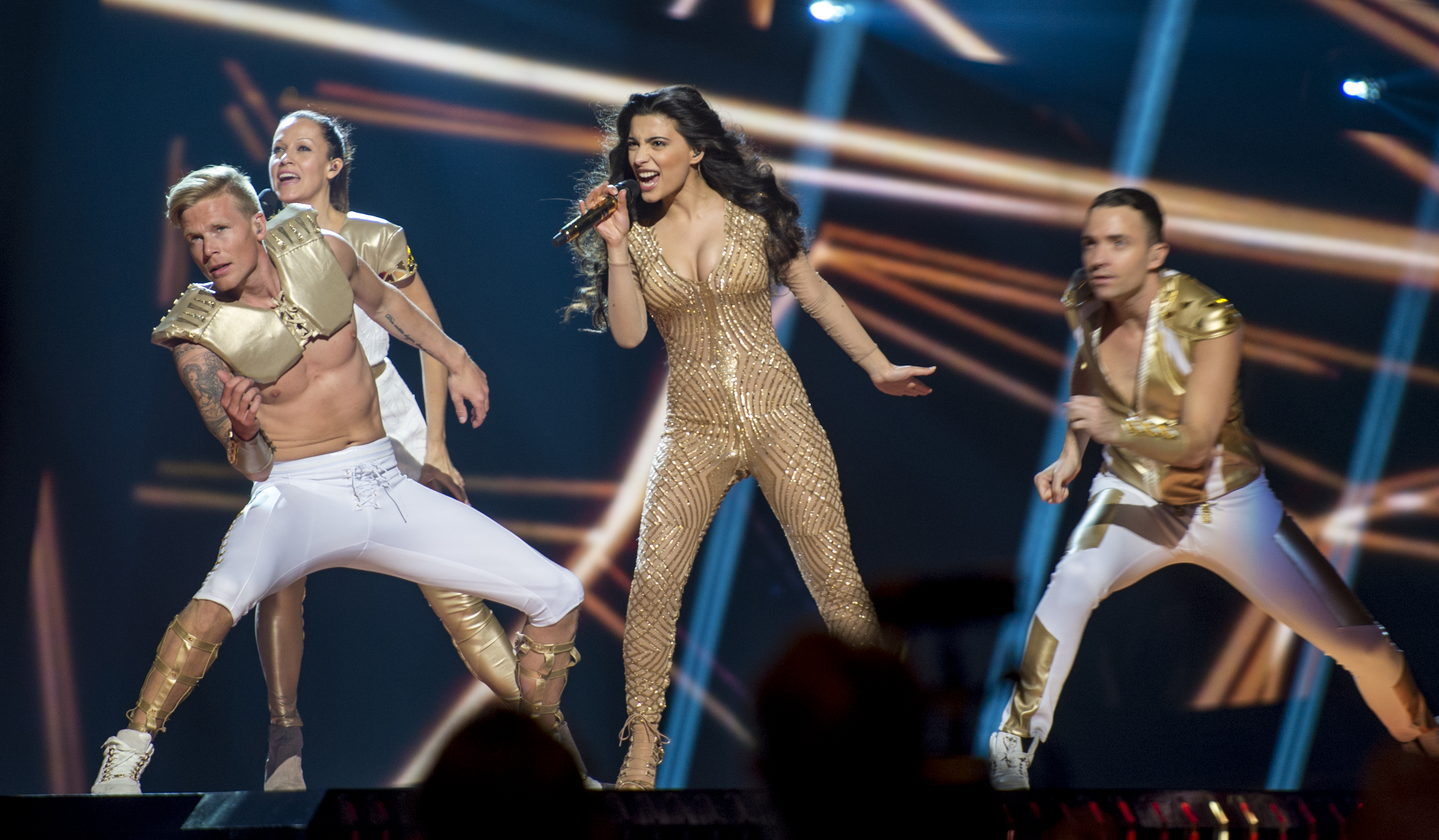 Samra representing Azerbaijan with the song "Miracle" during a rehearsal before the first semi final of the Eurovision Song Contest 2016 in Stockholm. (Help translate this text)